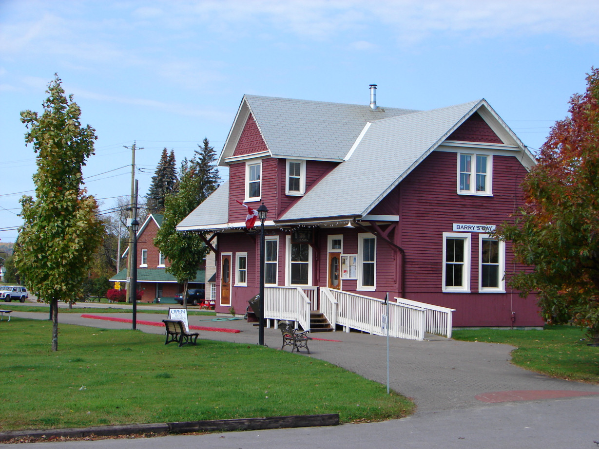 Old train station, now the South of 60 Arts' Centre/Tourist Office in Barry's Bay, Ontario, Canada